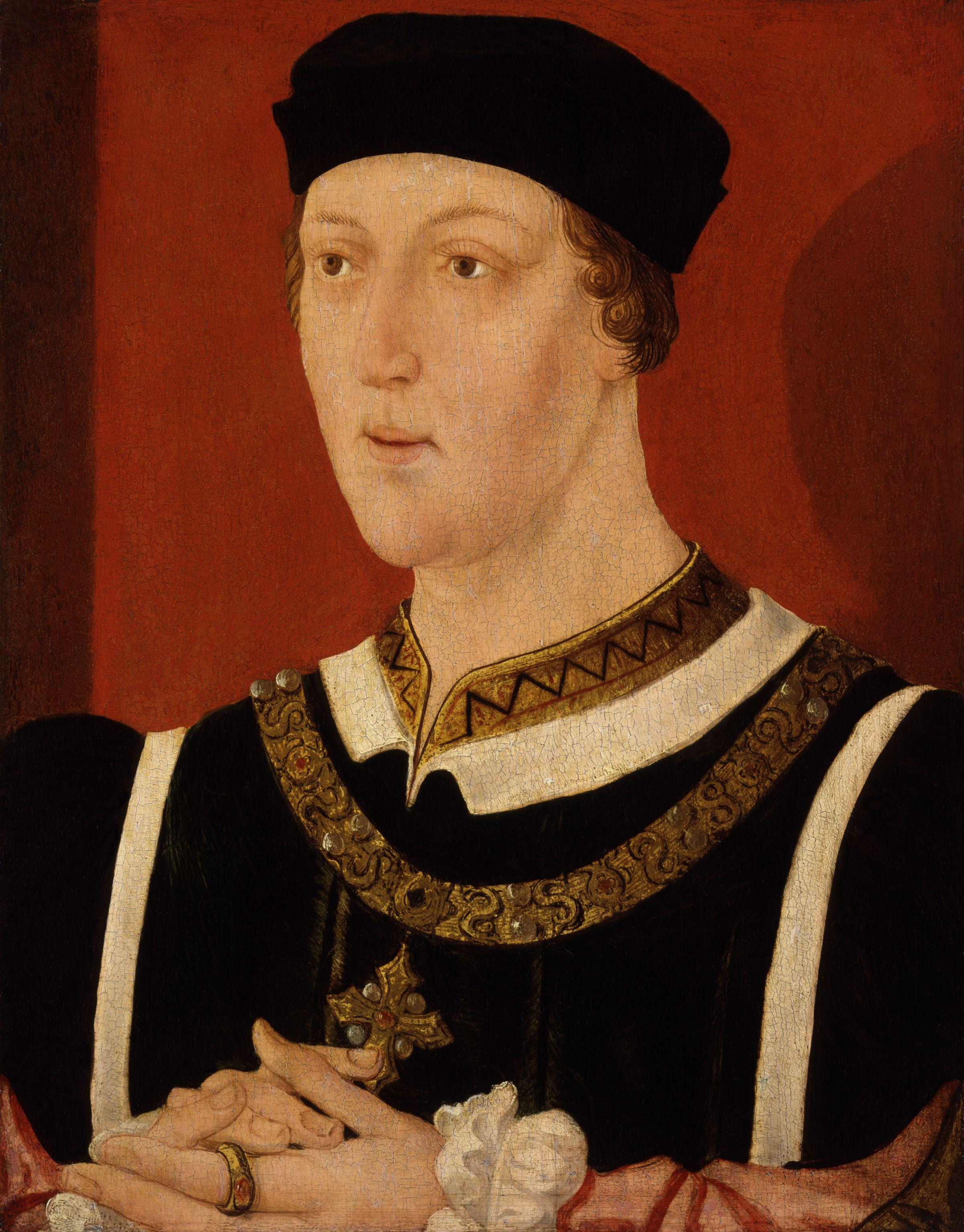 King Henry VI. Purchased by NPG in 1930. See source website for more details. All images in this batch have an unknown author, but there is strong evidence it was first published before 1923 (based mainly on the NPG's estimated date of the work).